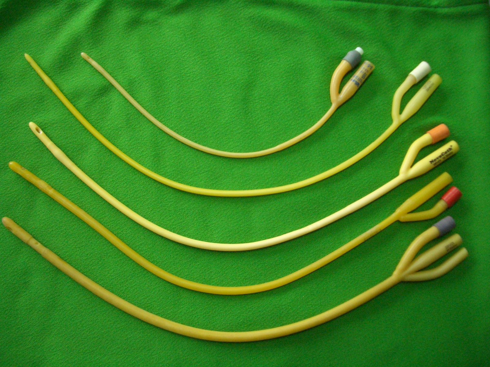 Types of catheter.